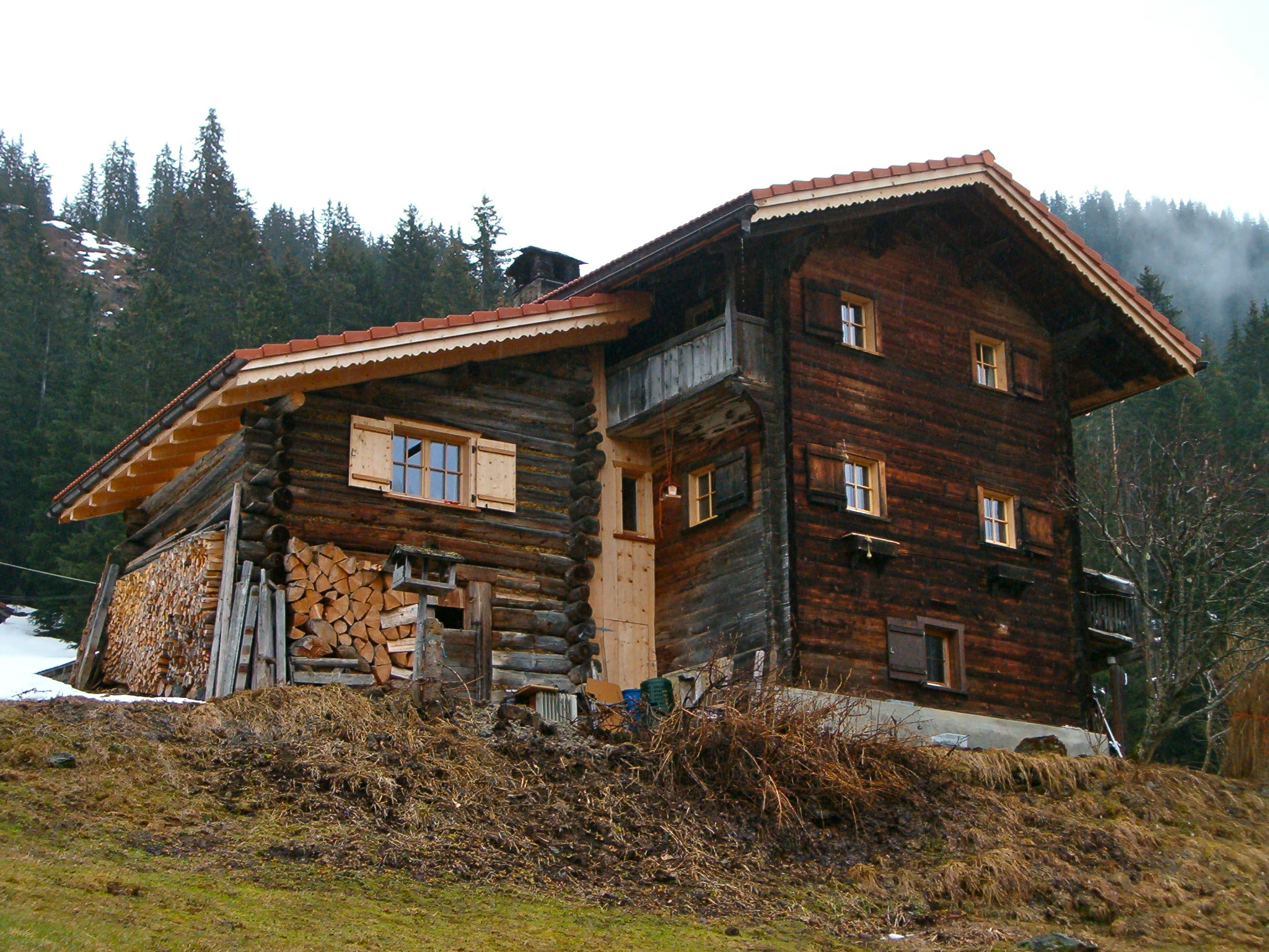 Walser house at Sonnenrueti, Langwies/Switzerland